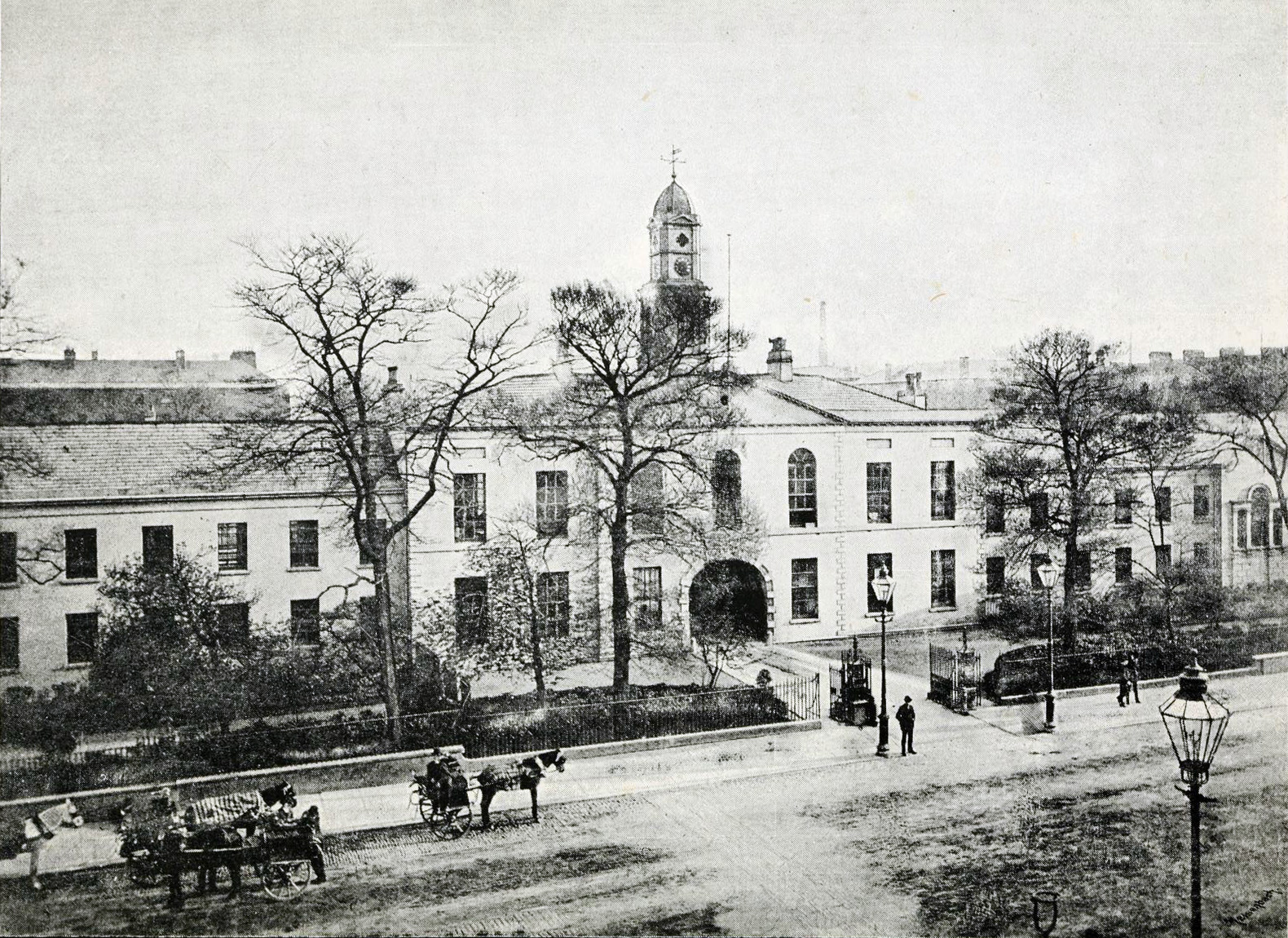 Black and white photograph of the Linen Hall Library, formerly the White Linen Hall, Donegall Square, Belfast. Taken from the "History of the Belfast Library and Society for Promoting Knowledge", 1888. Original caption: "Linen Hall Library, 1888"